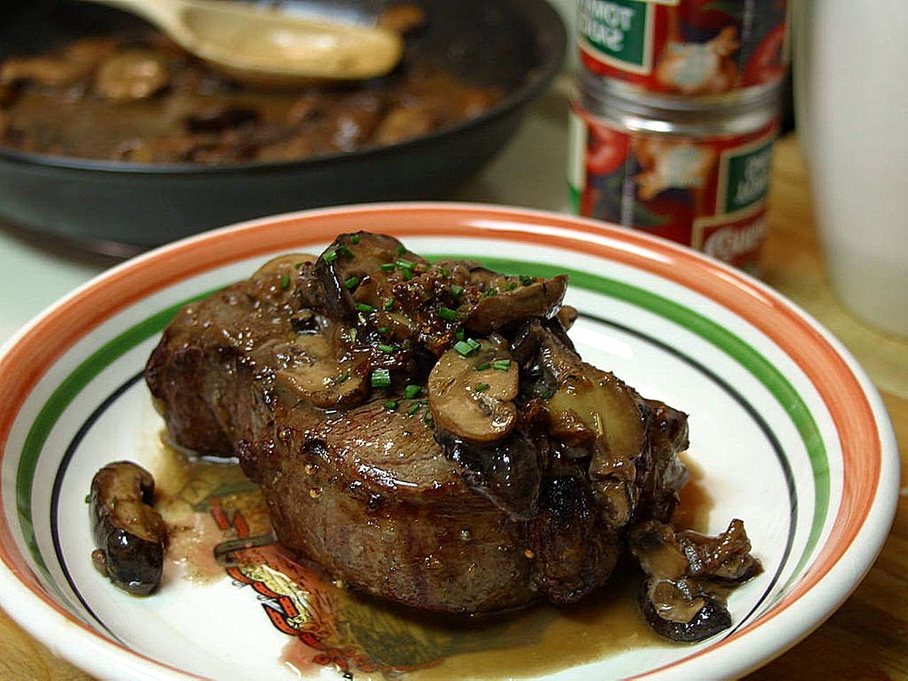 Image title: Steak with shitaki mushrooms Image from Public domain images website